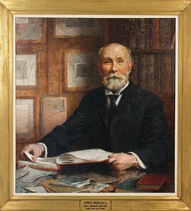 James Bain (1842-1908) dedicated his life to the book trade as a bookseller, publisher, collector and librarian. In 1902, he was recognized by Trinity University (Toronto) with the institution's highest honour, Doctor of Civil Law, for "distinguished service in the cause of education." He was born in London, England in 1842, and moved with his family to Toronto in 1846. He worked in the book trade from the age of 14, first at his father's Toronto bookshop, and later in 1866 with Toronto publisher James Campbell and Sons. He travelled to England and worked for various booksellers and publishers. During this time he and his brother Robert purchased significant historical materials. At this time he also entered into an agreement with another publishing firm, which then became J.C. Nimmo and Bain. Bain returned to Toronto in 1881 to manage Campbell's new publishing firm, the Canadian Publishing Company. As the first Chief Librarian of the Toronto Public Library, Bain laid out the plan for the development of our rare Canadiana collection. He was charged with acquiring, for the library, "those rare and costly works which are generally out of reach of individual students and collectors, and which are not usually found in provincial or private libraries." Under Bain's watchful eye, the collection grew to include rare and unique maps, art, books and personal accounts of events in Canadian history. This portrait was commissioned by the Board of the Toronto Public Library in 1909. Creator: Sir Edmund Wyly Grier, 1862-1957 Date: 1909 Identifier: TRL2011-JamesBain-w-Frame-mg-9707 Format: Picture Rights: Public domain Courtesy: Toronto Public Library. This image is available from the Toronto Public Library under the reference number TRL2011-JamesBain-w-Frame-mg-9707 This tag does not indicate the copyright status of the attached work. A normal copyright tag is still required. See Commons:Licensing for more information. English | français | +/−